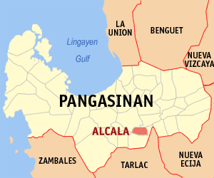 Map of Pangasinan showing the location of Alcala